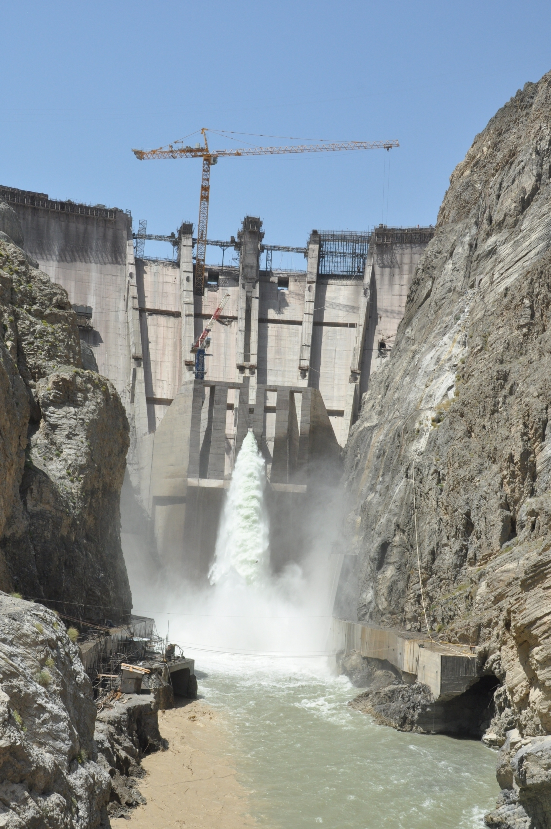 Construction of the Gomal Zam Dam in FATA, Pakistan.